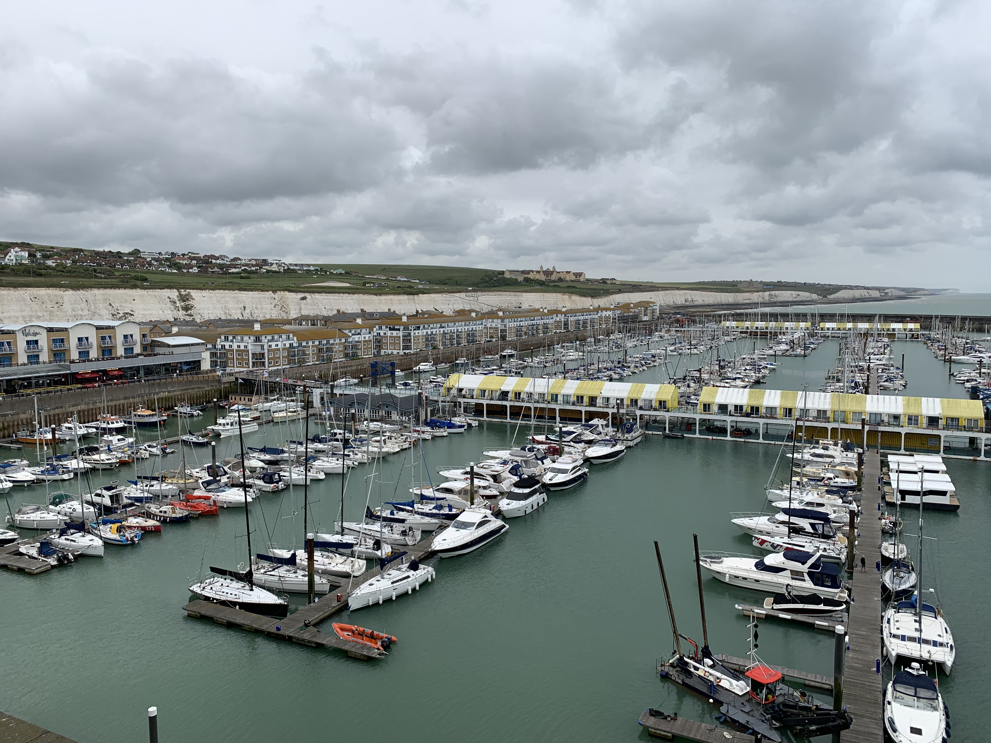 View of the Brighton Marina from the Sirius Boardwalk Apartments which captures the facilities located next to the marina and the Brighton Marina Reception